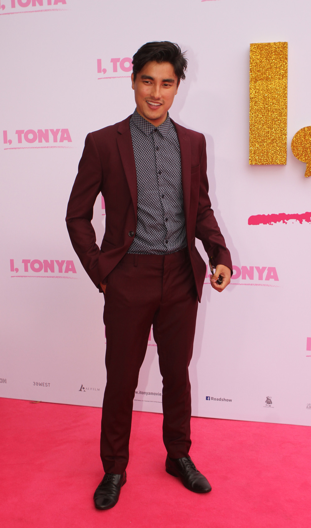 Remy Hll